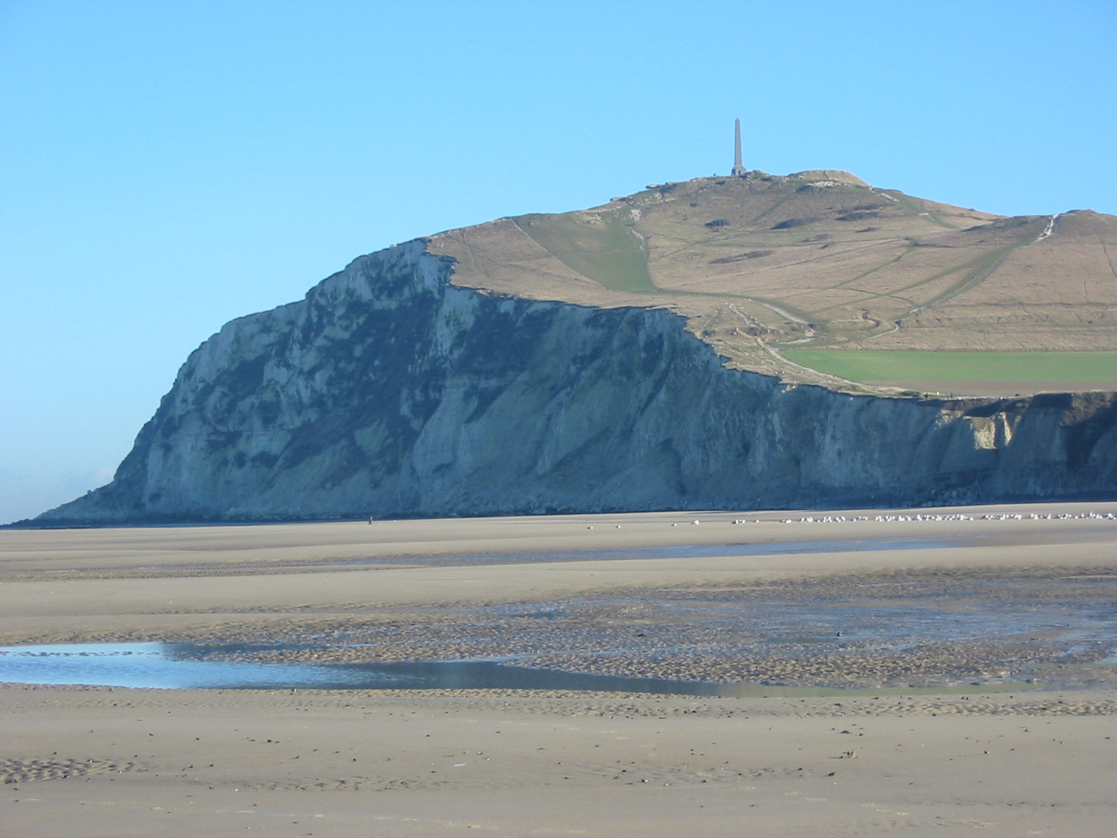 Cap Blanc-Nez (Category:Cliffs), at the Côte d'Opale, in Pas-de-Calais, France